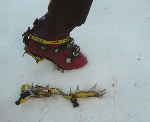 Crampon for a skiing boot. Aluminium-made crampon with twelve points and equipped with antiboot.